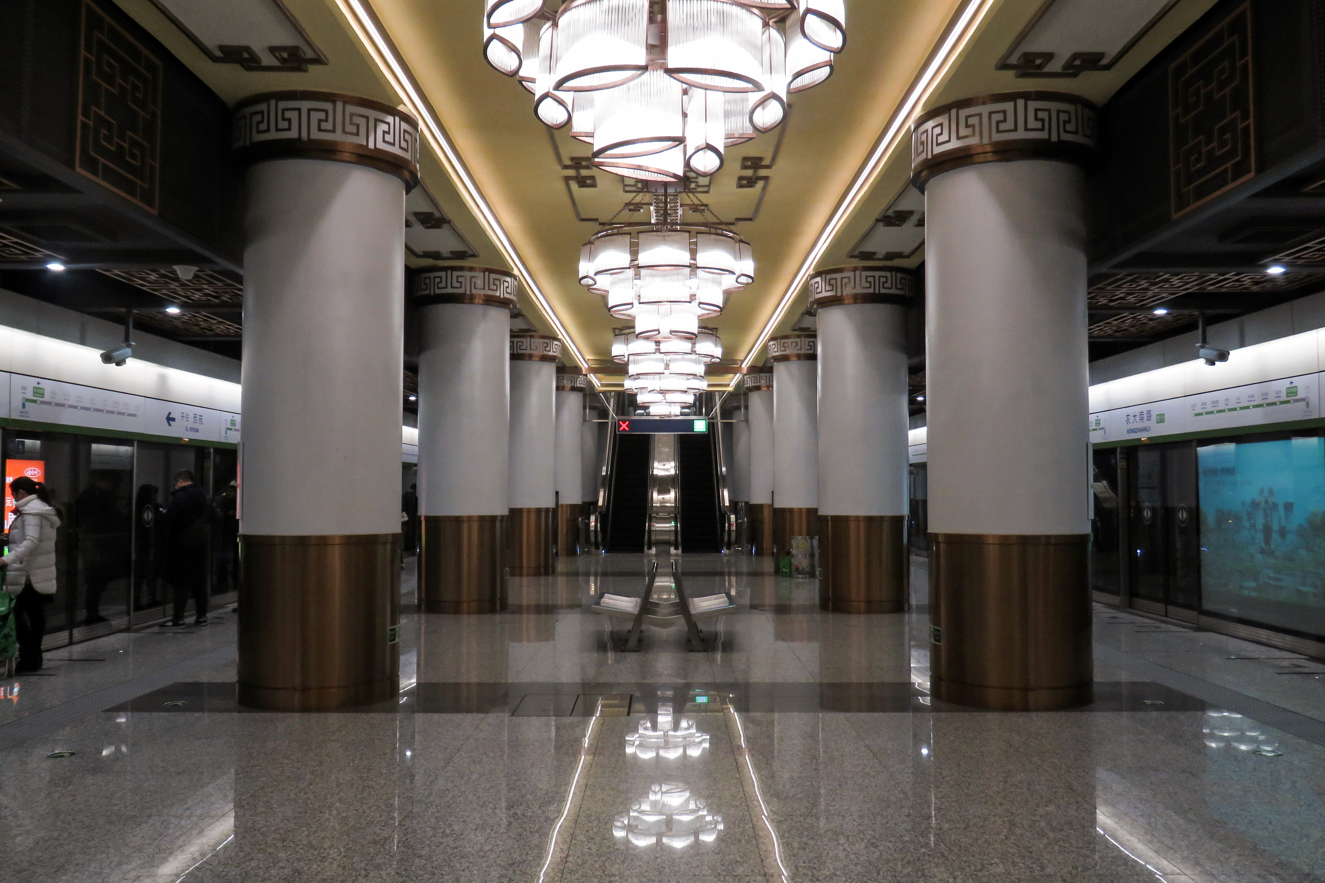 Profile view before my first boarding here.